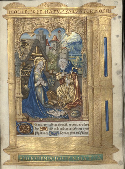 The nativity, illumination from Horae beatae virginis, 2nd half 15th century, Stadtbibliothek Lübeck, Ms. theol. lat. 8° 176, f. 33 r